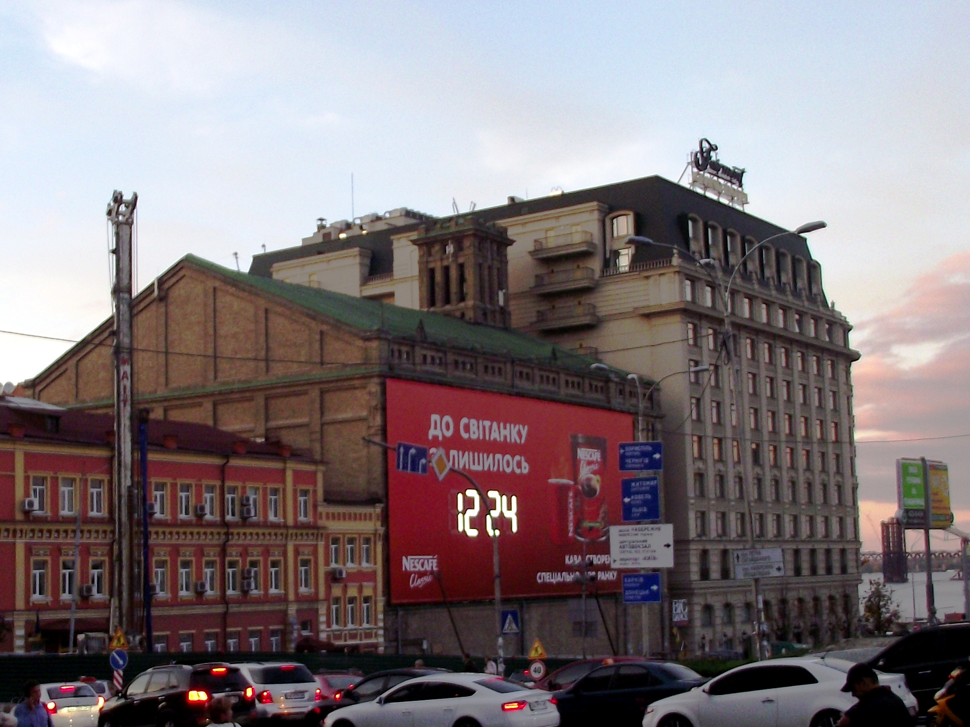 Elevator of Brodsky